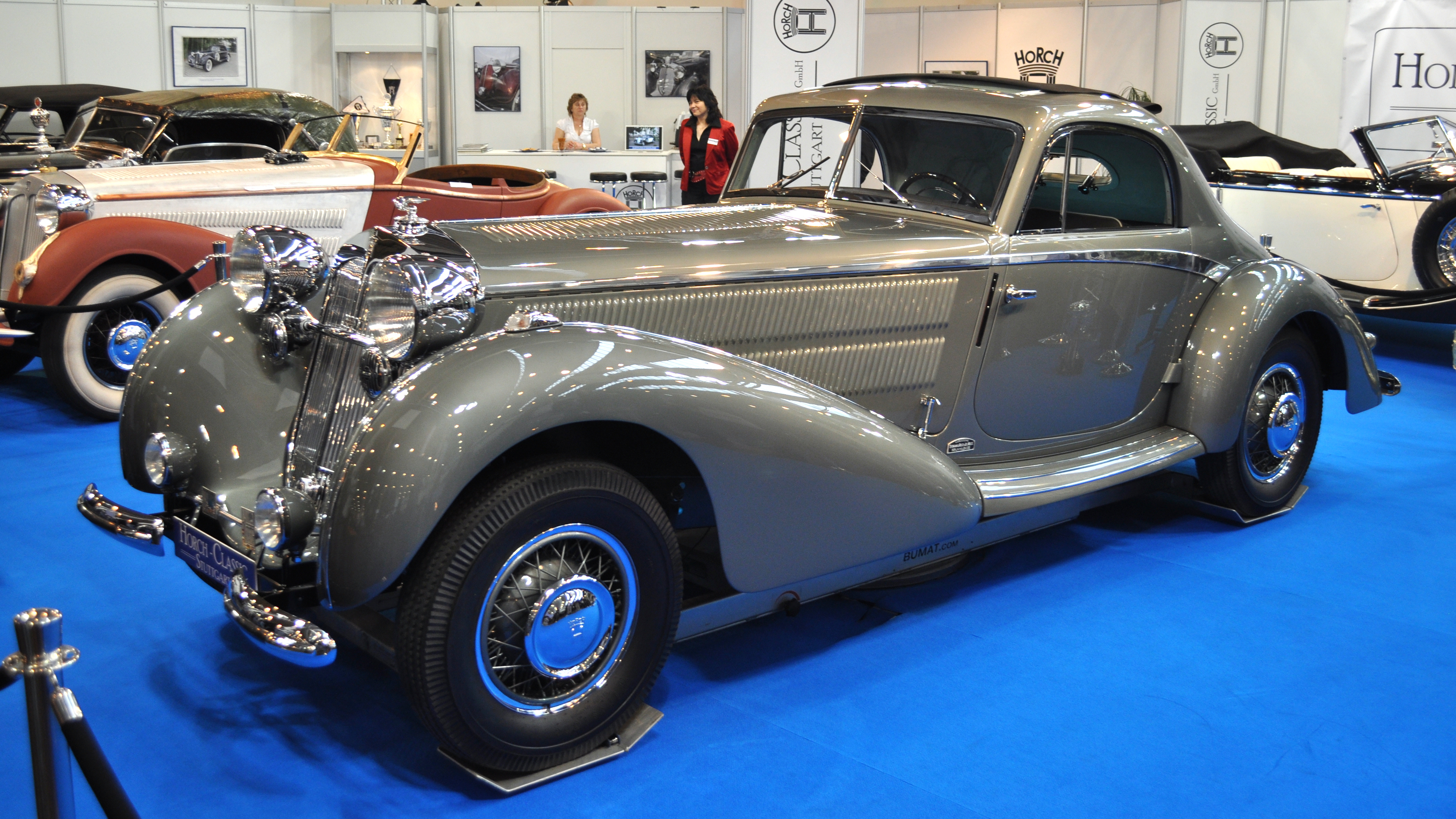 Horch 853 Coupé, ex Bernd Rosemeyer (1937) at the Technoclassica 2011 in Essen